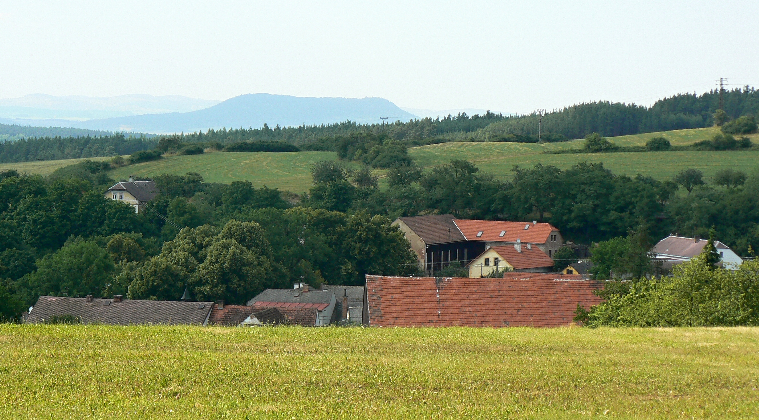 Chapel and viewpoint near Vladměřice in Plzeň-North District, Czech Republic